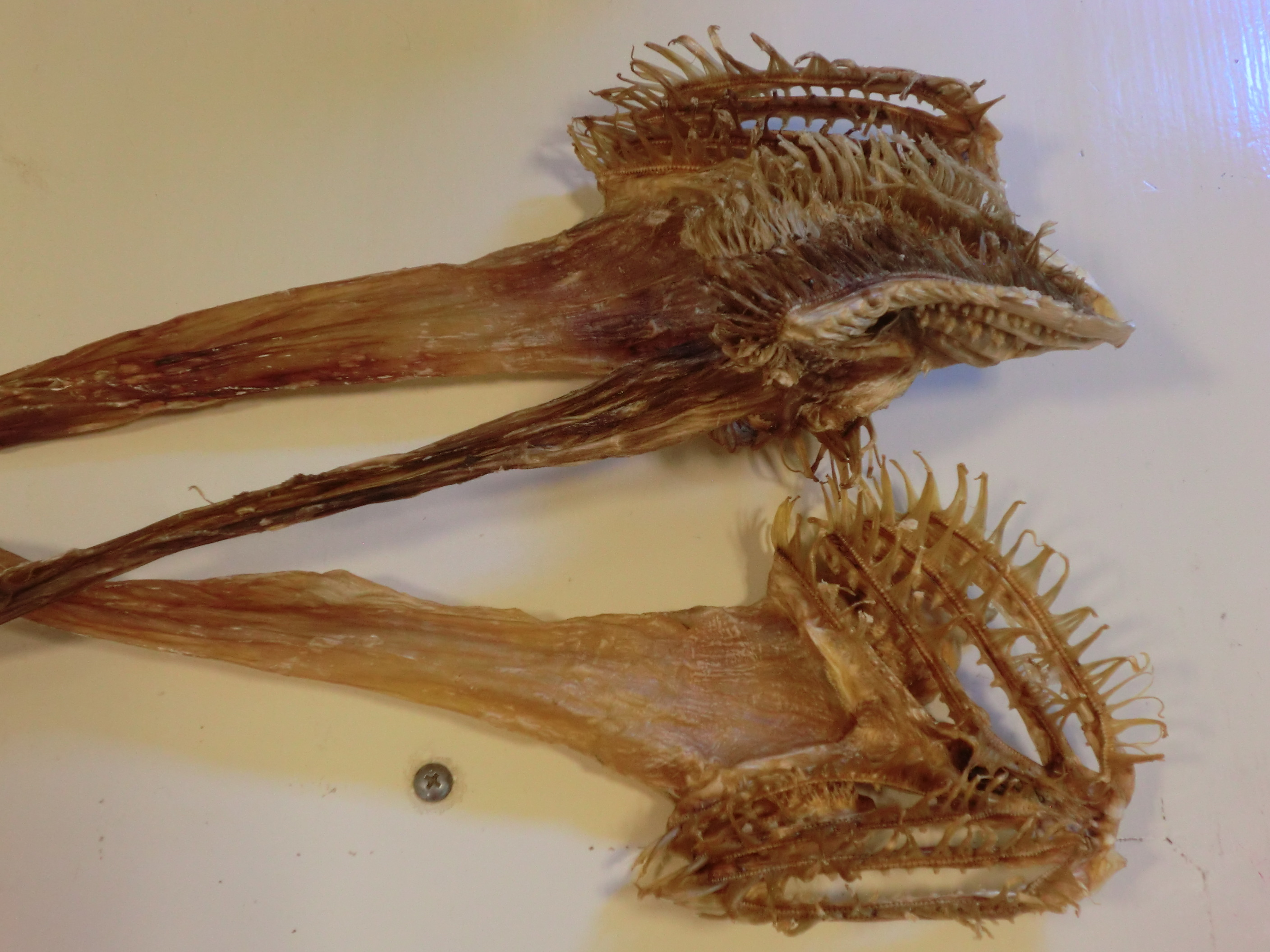 Taraosa(dried stomach of cods). It is usually cooked for "Bon dara"(cod stew for Bon festival) at Bon festival in Fukuoka and Oita prefecture,Japan.